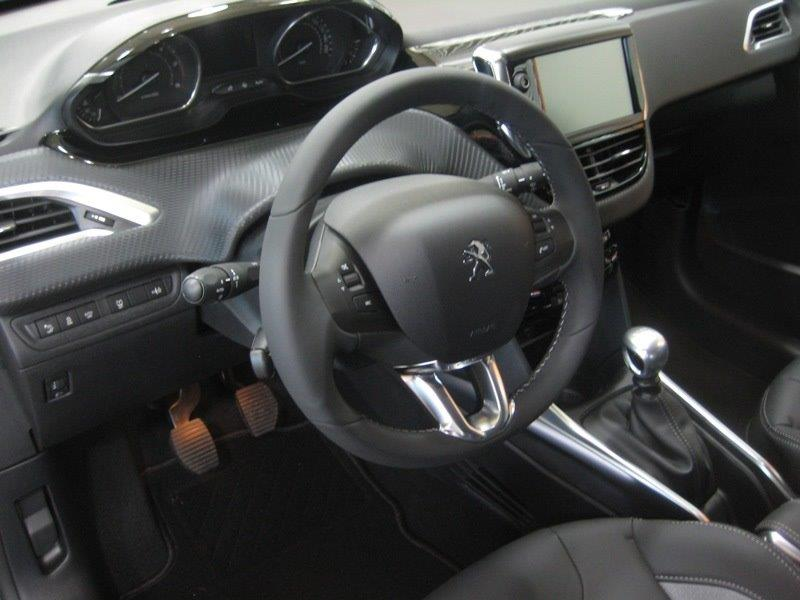 Peugeot 2008 Allure e-HDi 116 inside